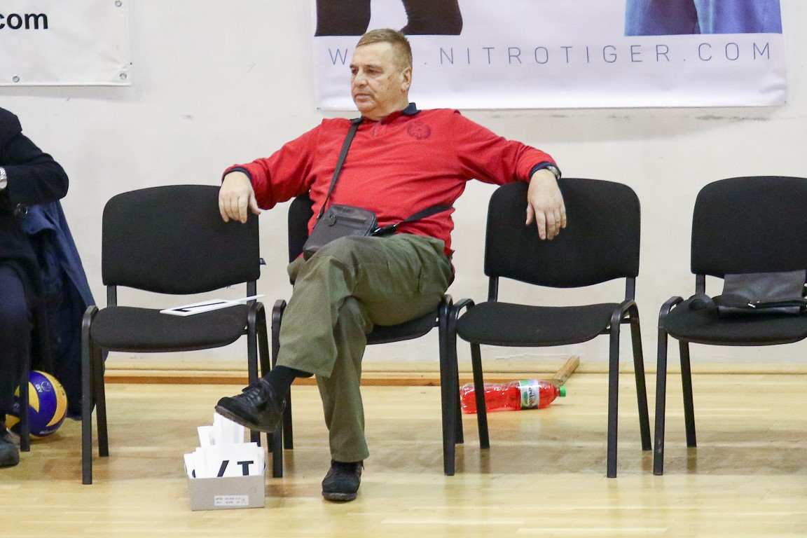 Stoyan Stoev - former Bulgarian volleyball player, volleyball coach